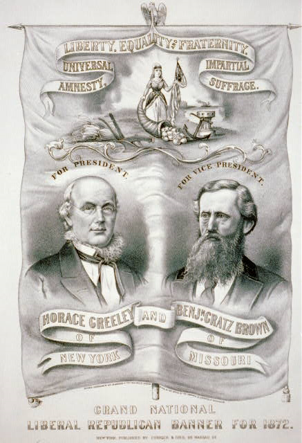 Grand National Liberal Republican banner for 1872 A facsimile of an ornate cloth banner for Liberal Republican candidates Horace Greeley and Benjamin Gratz Brown. At the top of the banner, which is suspended from a crossbar, is an eagle holding a streamer inscribed with mottoes of the campaign: "Liberty, Equality and Fraternity, Universal Amnesty and Impartial Suffrage." Below is Columbia or Liberty, wearing a Phrygian cap and holding an American flag and cornucopia. She stands on a shore with a steamship in the distance. At her feet are symbols of Agriculture, Commerce, and the Arts--a plough, threshed wheat, an anchor, and a column. In the banner's center are bust portraits of the two candidates.